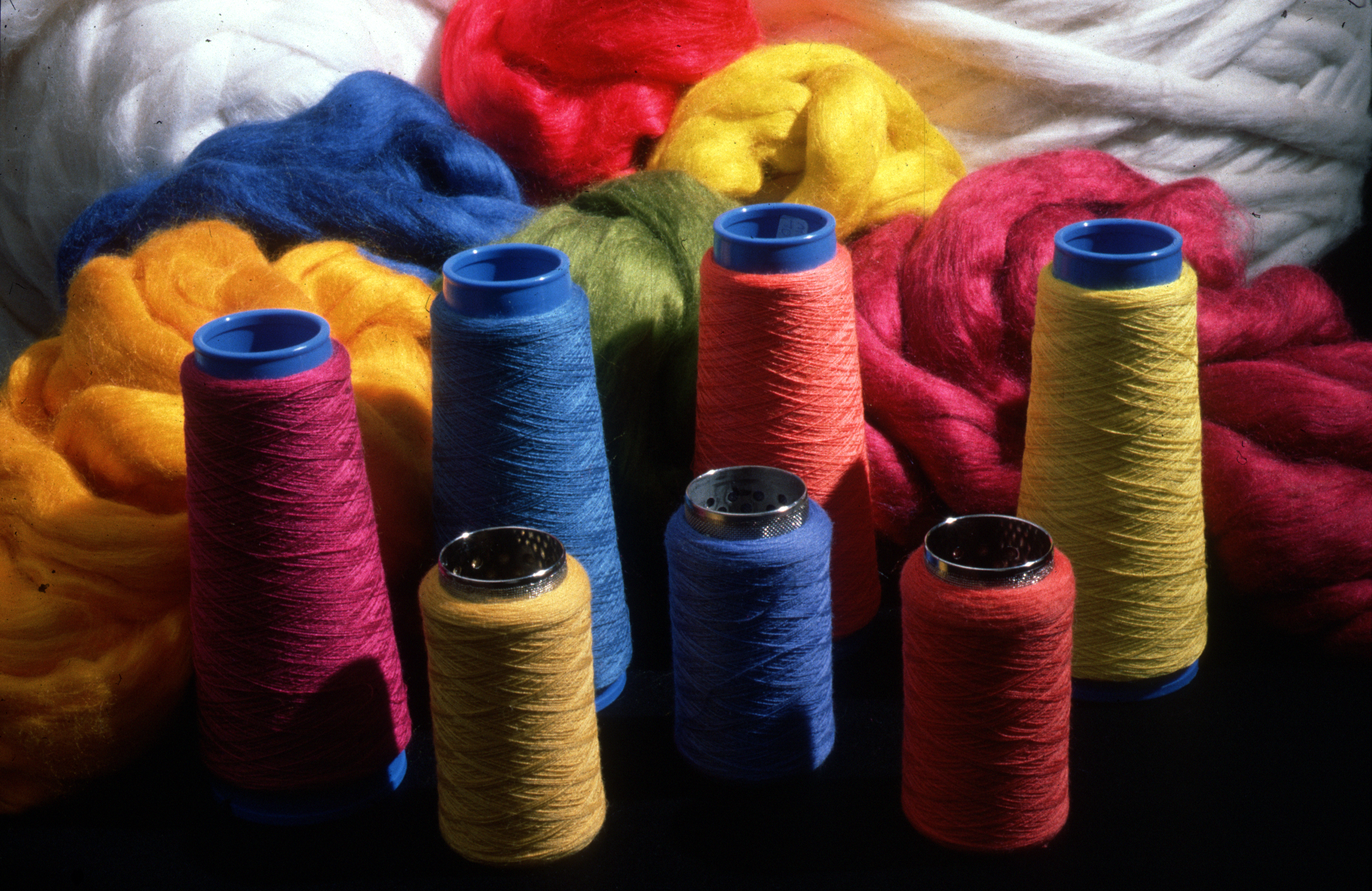 Dyed OPTIM™ wool.